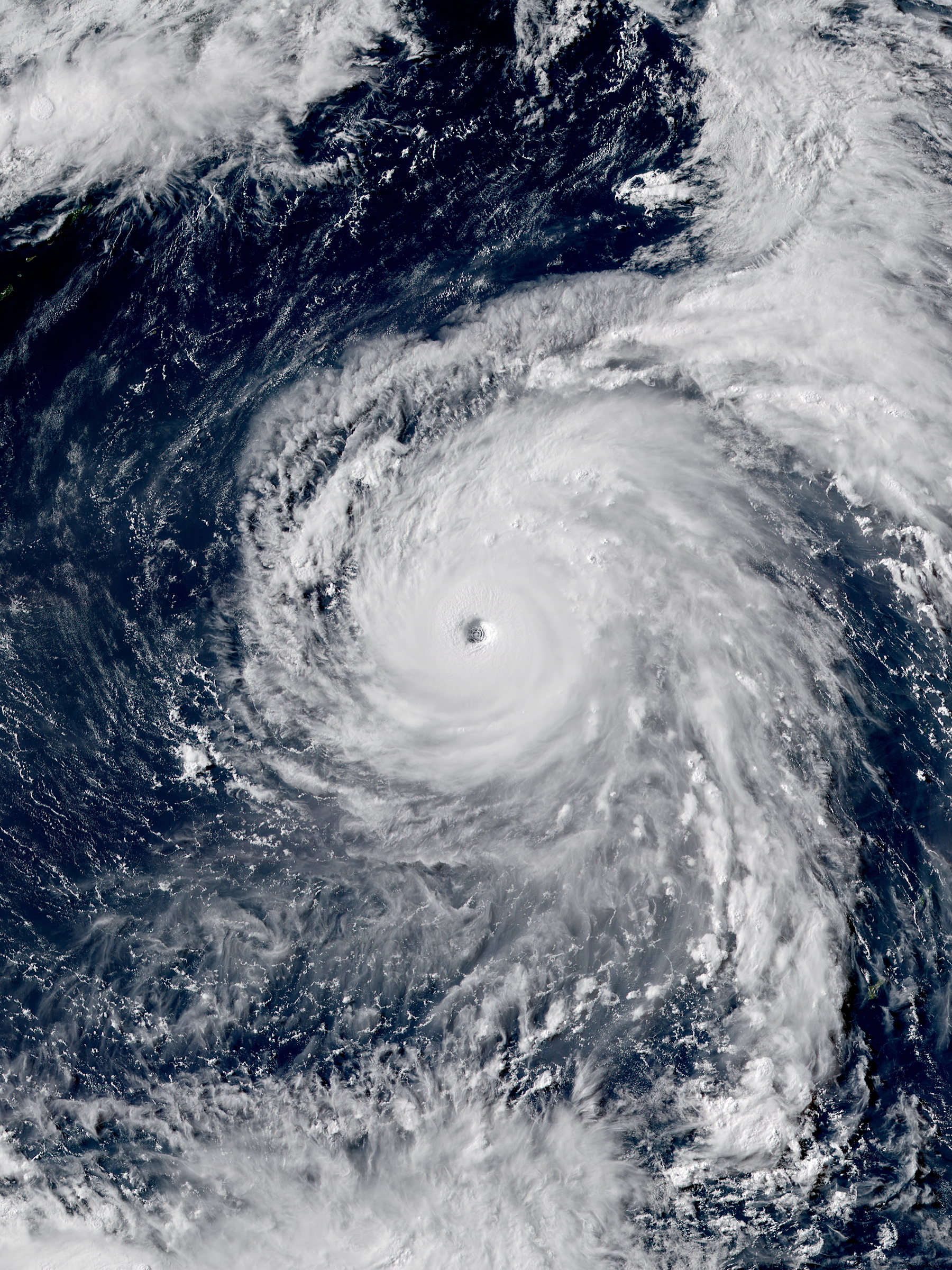 Typhoon Maria at peak intensity and located west of Okinotorishima on July 8, 2018, after the eyewall replacement cycle.